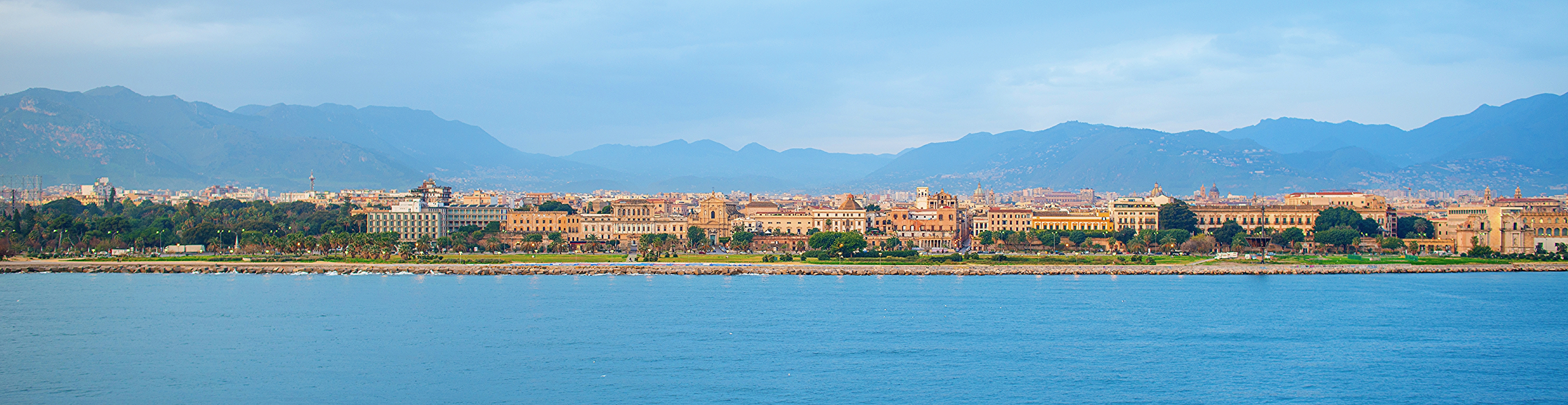 Palermo Sicily February 2013